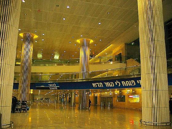 Photo by Gila Brand, my own work, New Terminal of Ben-Gurion International Airport